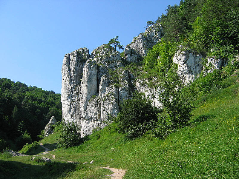 Poland. Bolechowice Valley near Cracow.